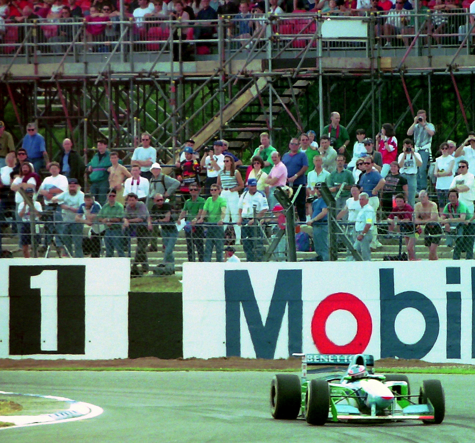 Michael Schumacher - Benetton 194 exits Luffield at the 1994 British Grand Prix